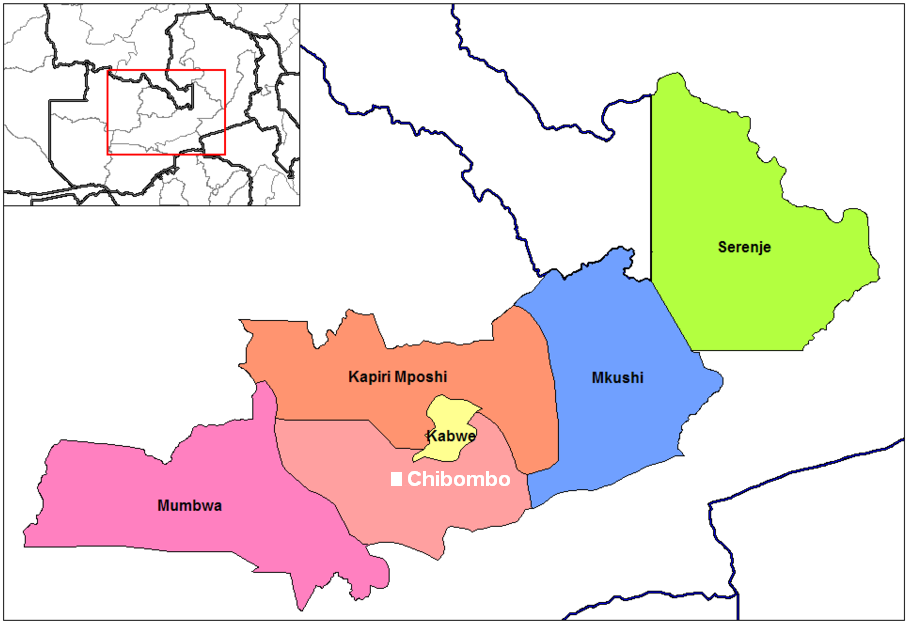 Map showing location of Chibombo town & district, Zambia